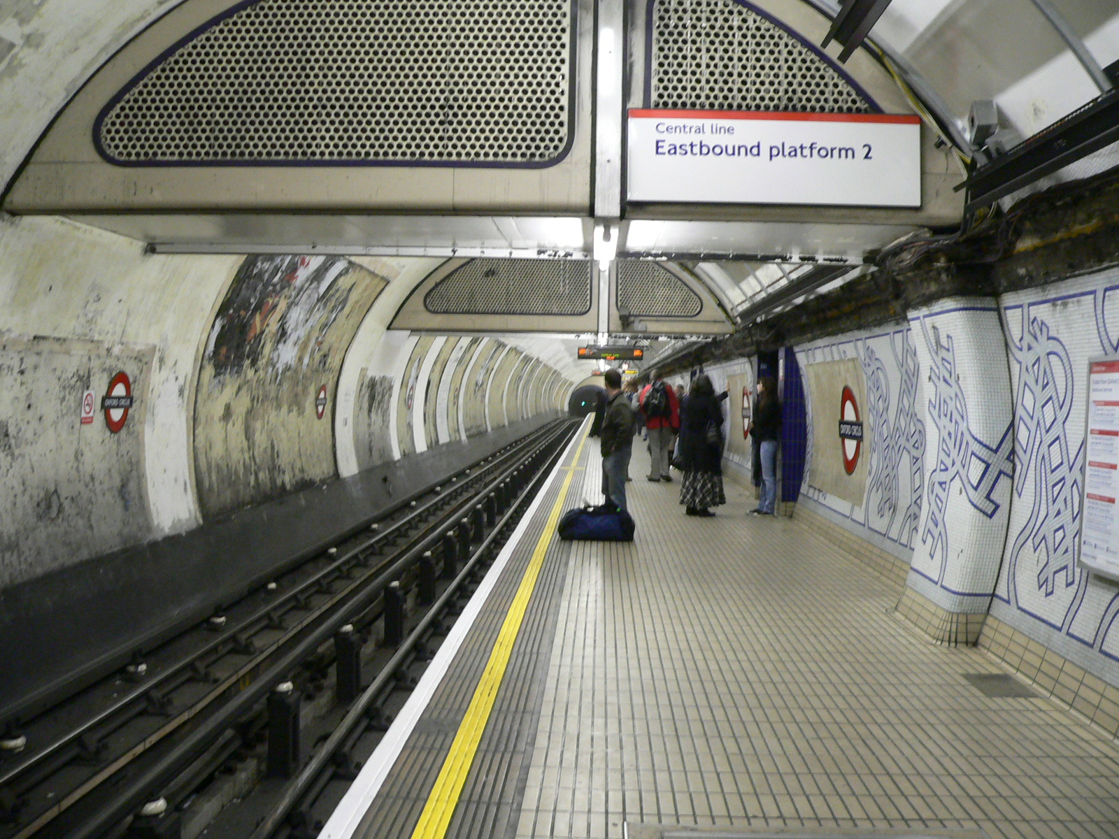 The westbound Central Line platform at Oxford Circus tube station.